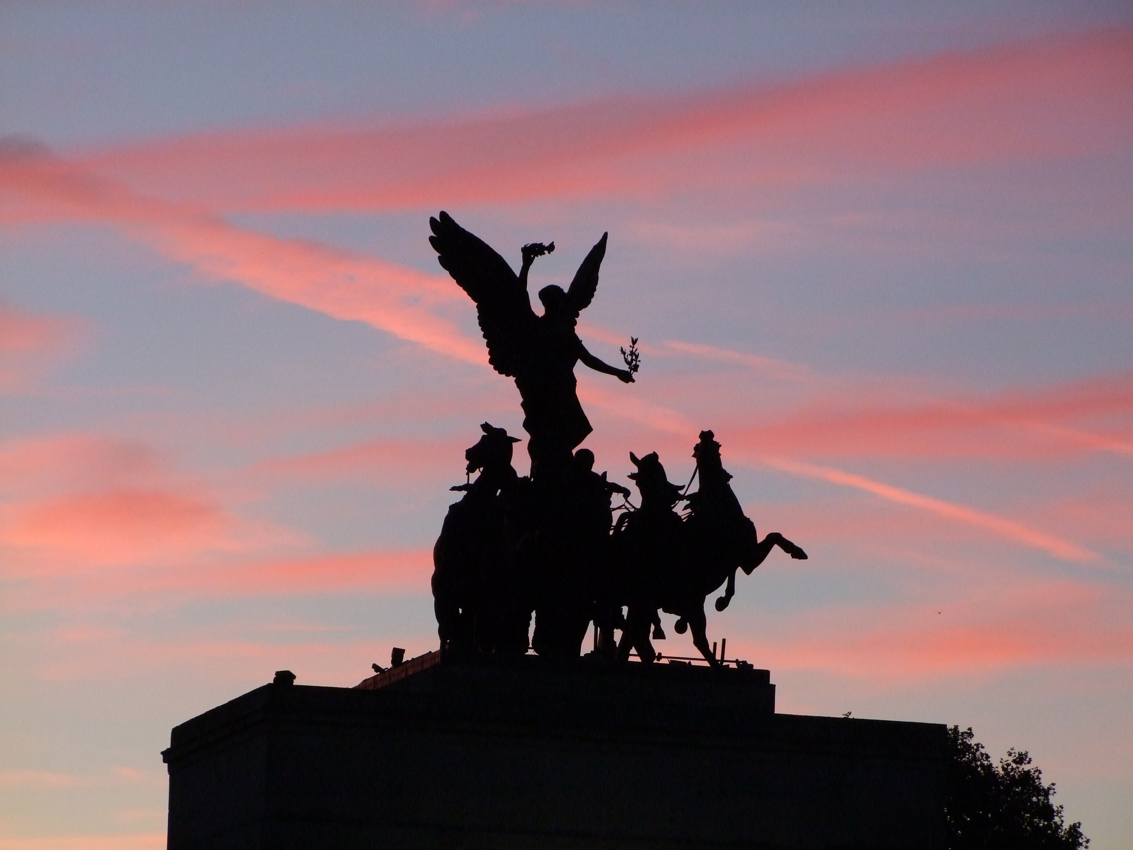 Wellington Arch, Hyde Park Corner, Hyde Park, London through the evening.